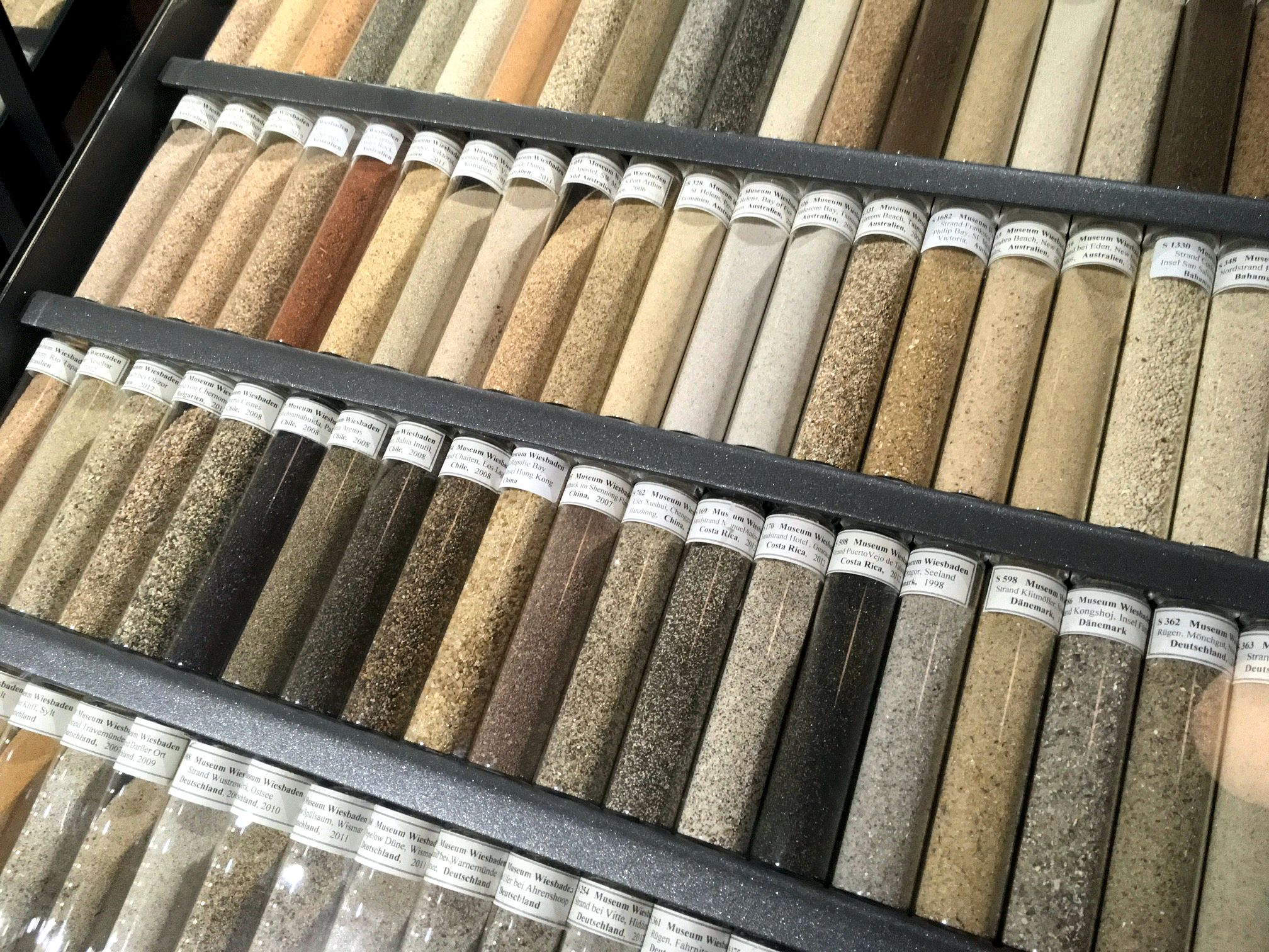 View into the sand collection, Museum Wiesbaden